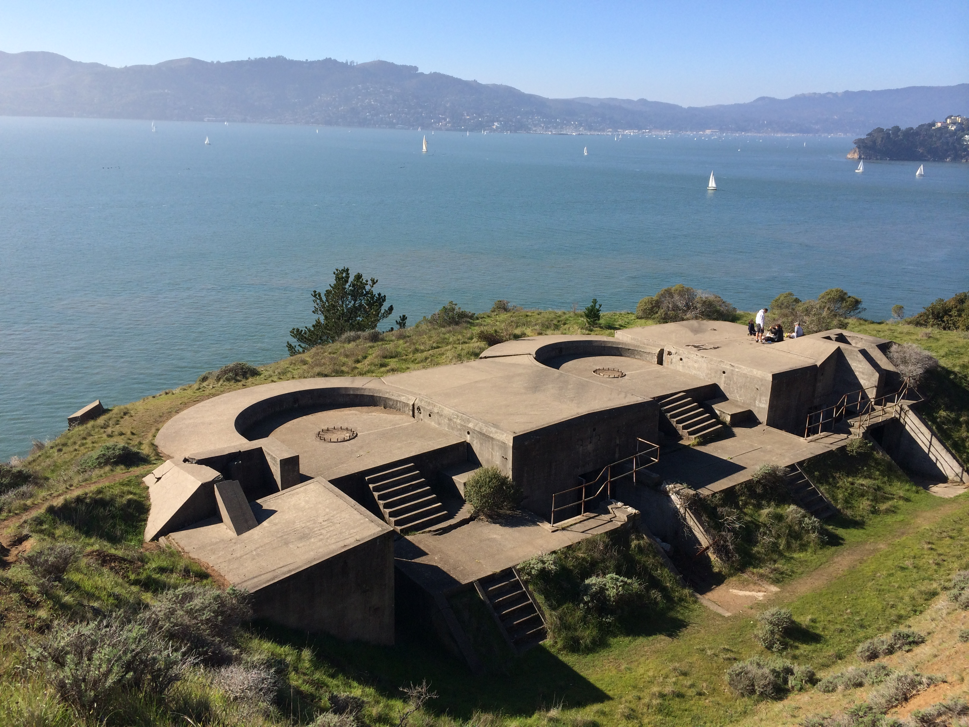 Battery Ledyard, near Point Knox, on Angel Island (San Francisco bay, California). It housed two 5-inch guns between 1899 and 1915.